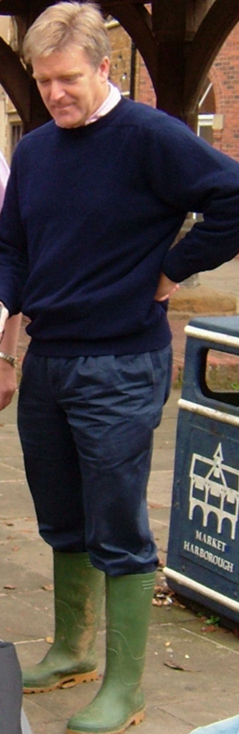 Edward Garnier QC MP in Market Harborough 31 Oct 2004